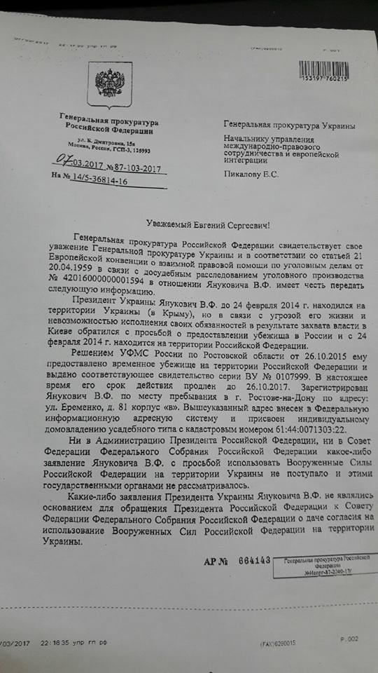 Letter from the Prosecutor General's Office of Russia 87-103-2017 2017-03-07